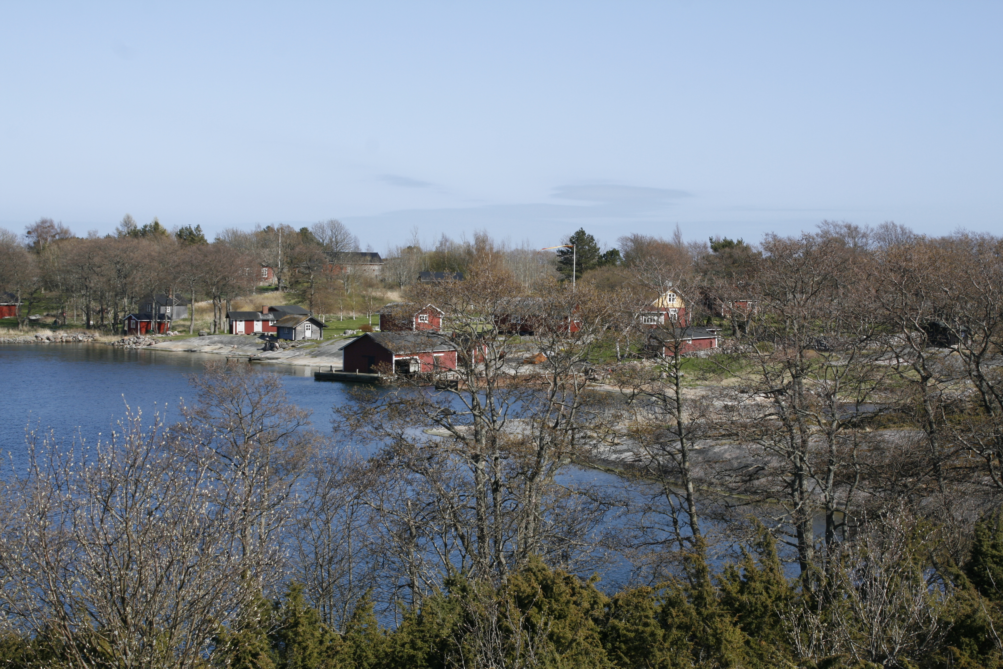 This picture of the village of Sandholm island in Nagu, Finland, was taken in 2015 from the neighbouring island Holmen.